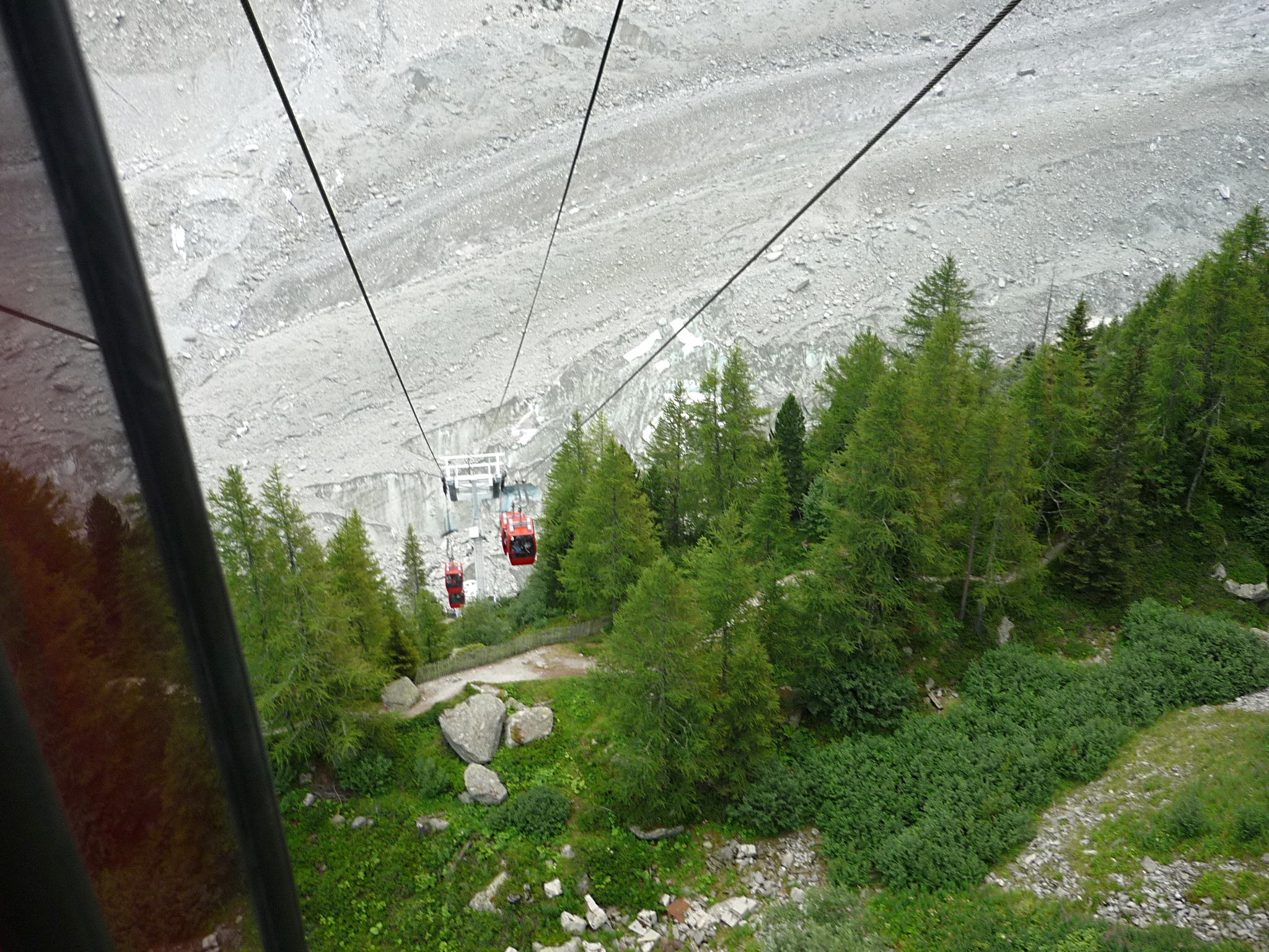 Montenvers Gondola lift, Chamonix-Mont-Blanc, Haute-Savoie, France